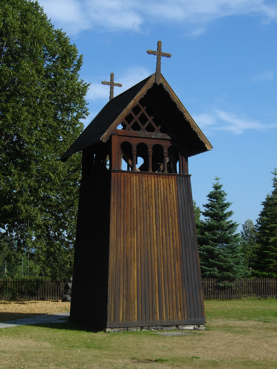 Belltower at stave church in Heddal, Norway